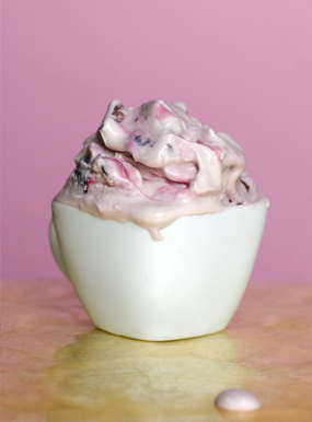 Cherry ice cream, created and photographed by Heidi Swanson, [1] and released by her under a creative commons attribution licence.